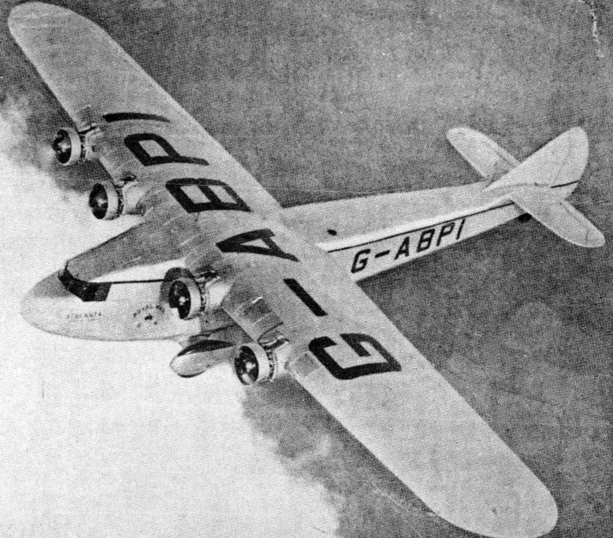 Armstrong Whitworth A.W.XV Atalanta photo from NACA-AC-167